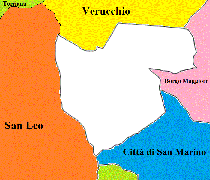 Map of Acquaviva (San Marino)